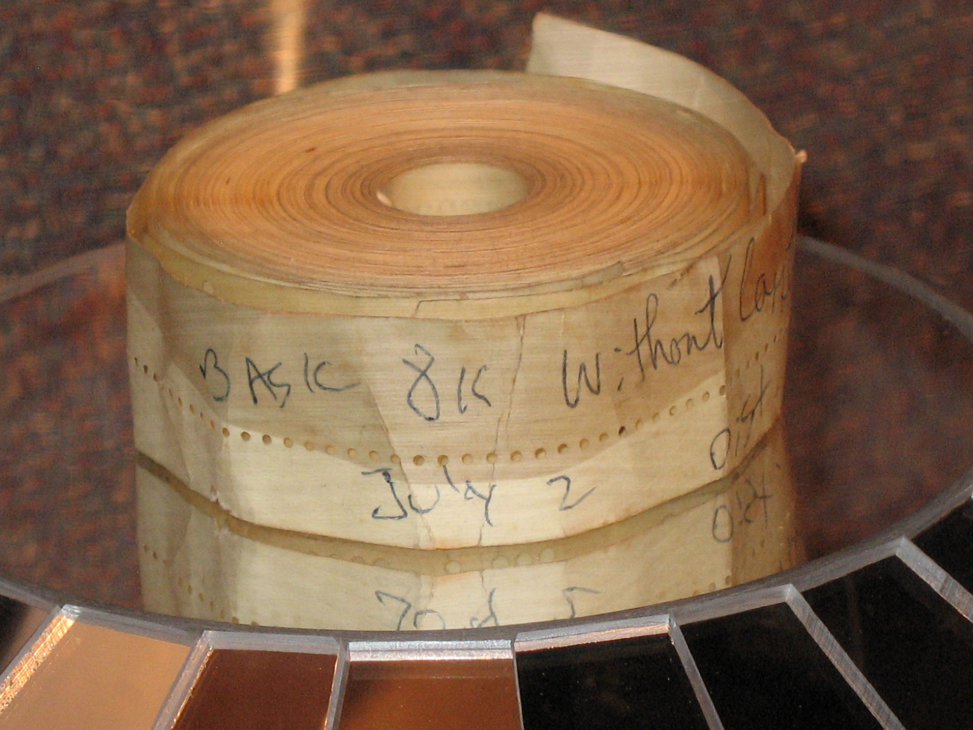 This is an original copy of 8K BASIC on paper tape for the MITS Altair 8800 computer. The BASIC interpreter was written by Bill Gates, Paul Allen, and Monte Davidoff. The tape is labeled "BASIC 8K without cassette" and dated July 2 (1975). Paper tape was a common method for storing programs and data in the 1960s and 1970s. This tape was produced by a Teletype ASR-33. The term cassette means support for the Altair 88-ACR (Audio Cassette Recorder) interface board. In October 1975, 8K BASIC sold for $200. The price was discounted to $75 for "purchaser of 8K of Altair memory, and an Altair I/O board." 4K BASIC was $150 and Extended BASIC was$350 with discounted prices of $60 and $150. They were available on paper tape or cassette tape. This tape is on display at the "STARTUP: Albuquerque and the Personal Computer Revolution" wing of the New Mexico Museum of Natural History and Science. Photo by Michael Holley, April 27, 2007. Taken with a Canon PowerShot A630 (1/60 second and F/4.1) using on camera flash.